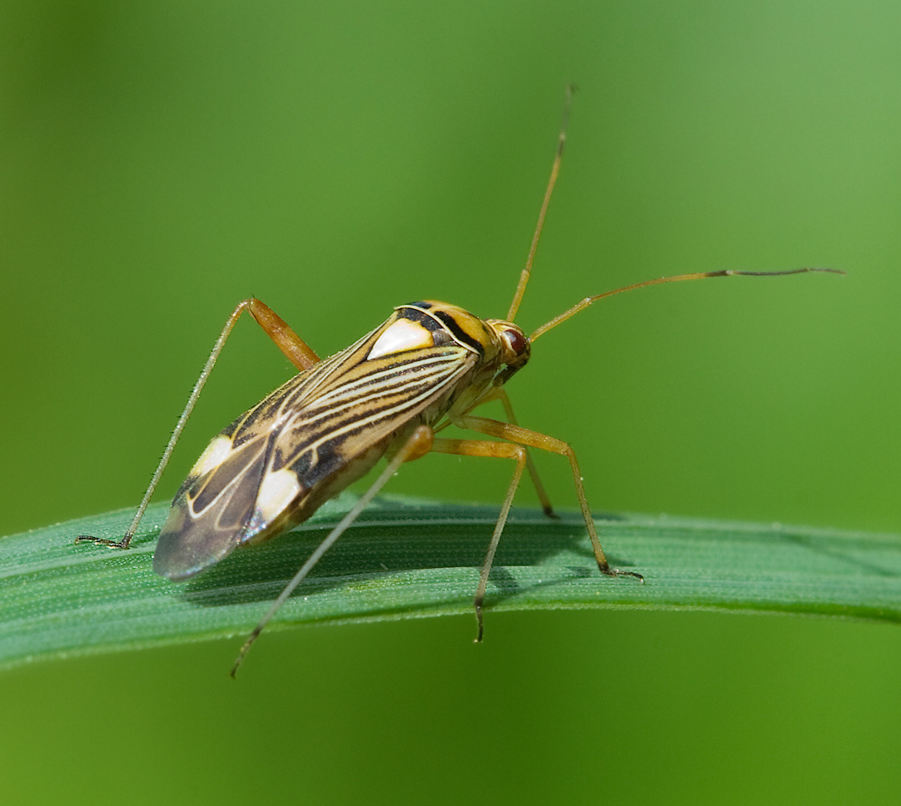 Pale form of Striped Oak Bug (Rhabdomiris striatellus) Perlacher Forst, Munich, Germany